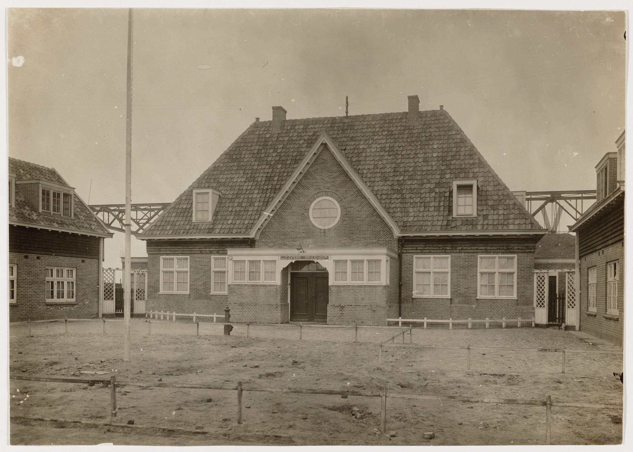 Verenigingsgebouw Ons Huis op Vogelplantsoen, 1920.